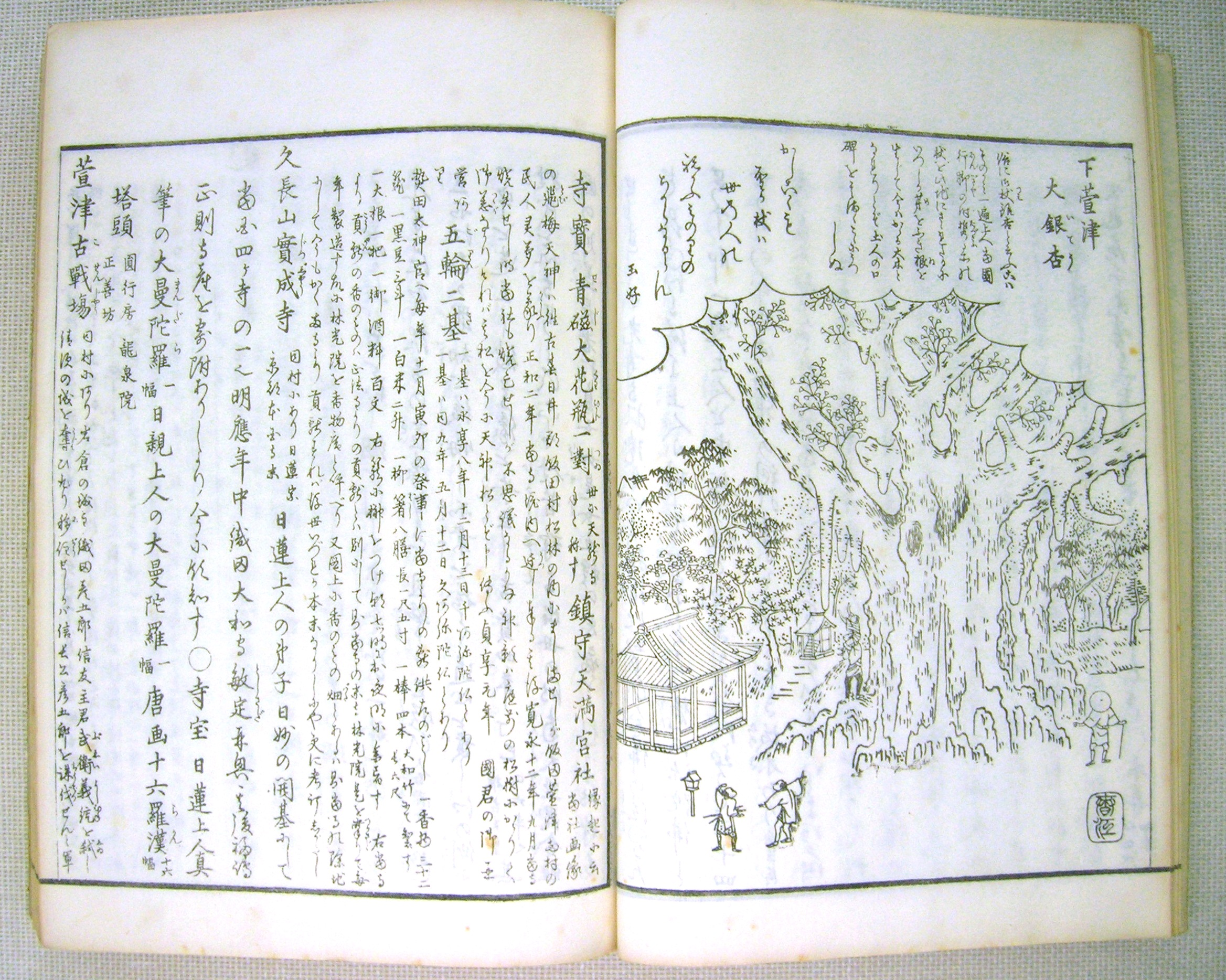 Owari meisho zue. Chorography of Owari Province, Publication in 1844. Loc: Nagoya city, Aichi Prefecture, Japan. 天保15年（1844年）に刊行された尾張名所図会・巻七。 撮影場所 愛知県名古屋市・名古屋市博物館